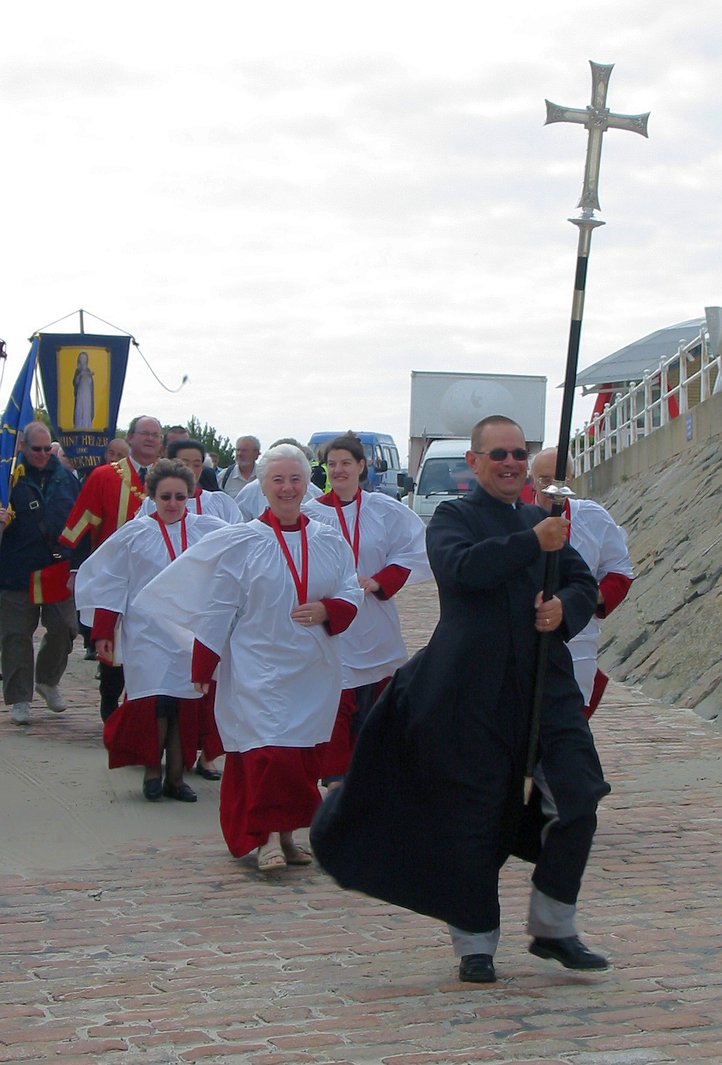 Saint Helier pilgrimage, Saint Helier, Jersey, 19 July 2009